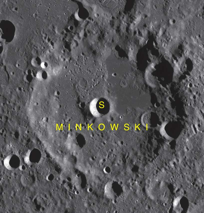 Part of the chart LAC-133 used for the presentation